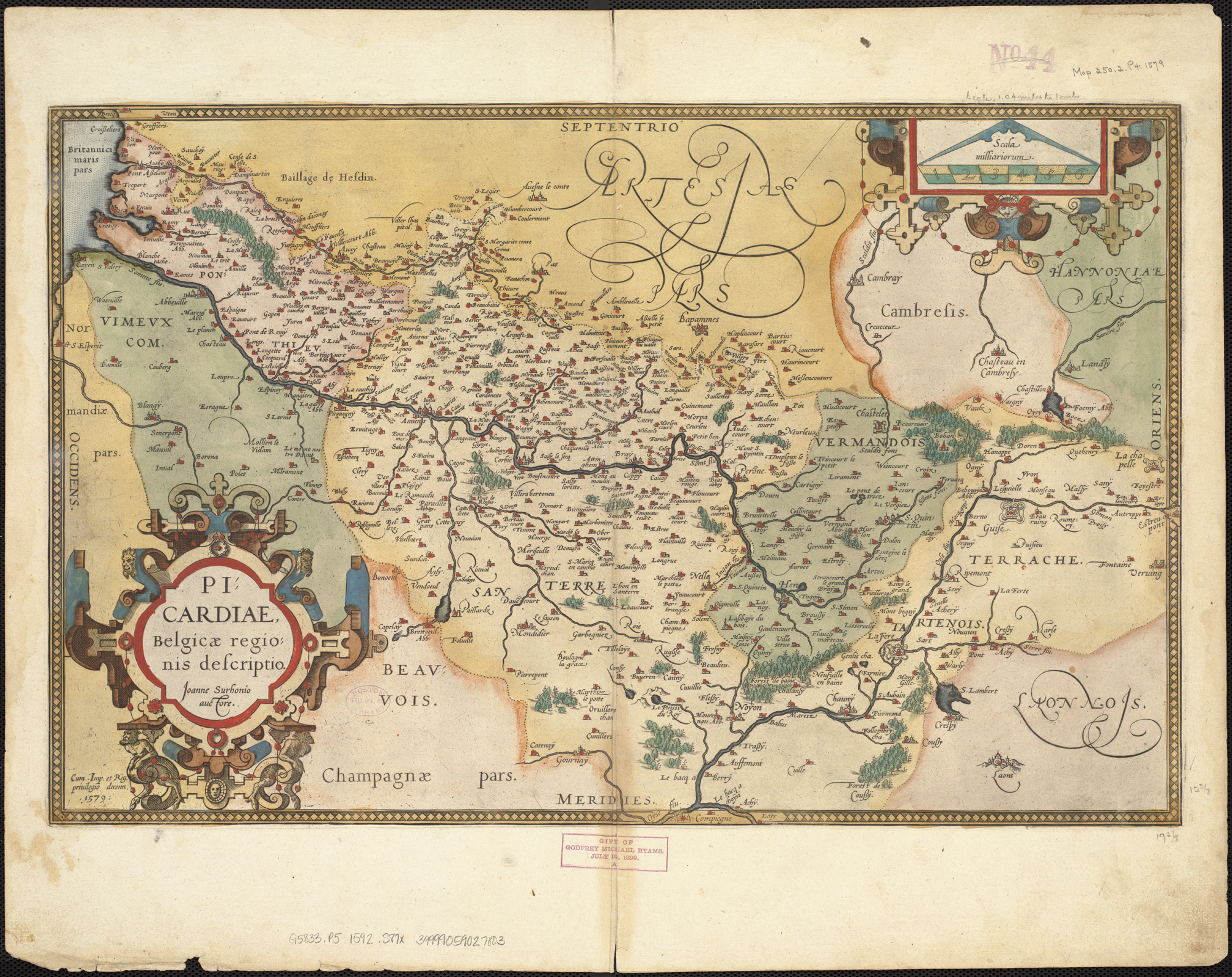 Zoom into this map at . Author: Surhon, Jean Publisher: Plantin Press Date: 1579 Location: Picardy (France) Dimension: 32x52cm Scale: ca. 1:66,000 Call Number: G5833.P5 1592 .S87x